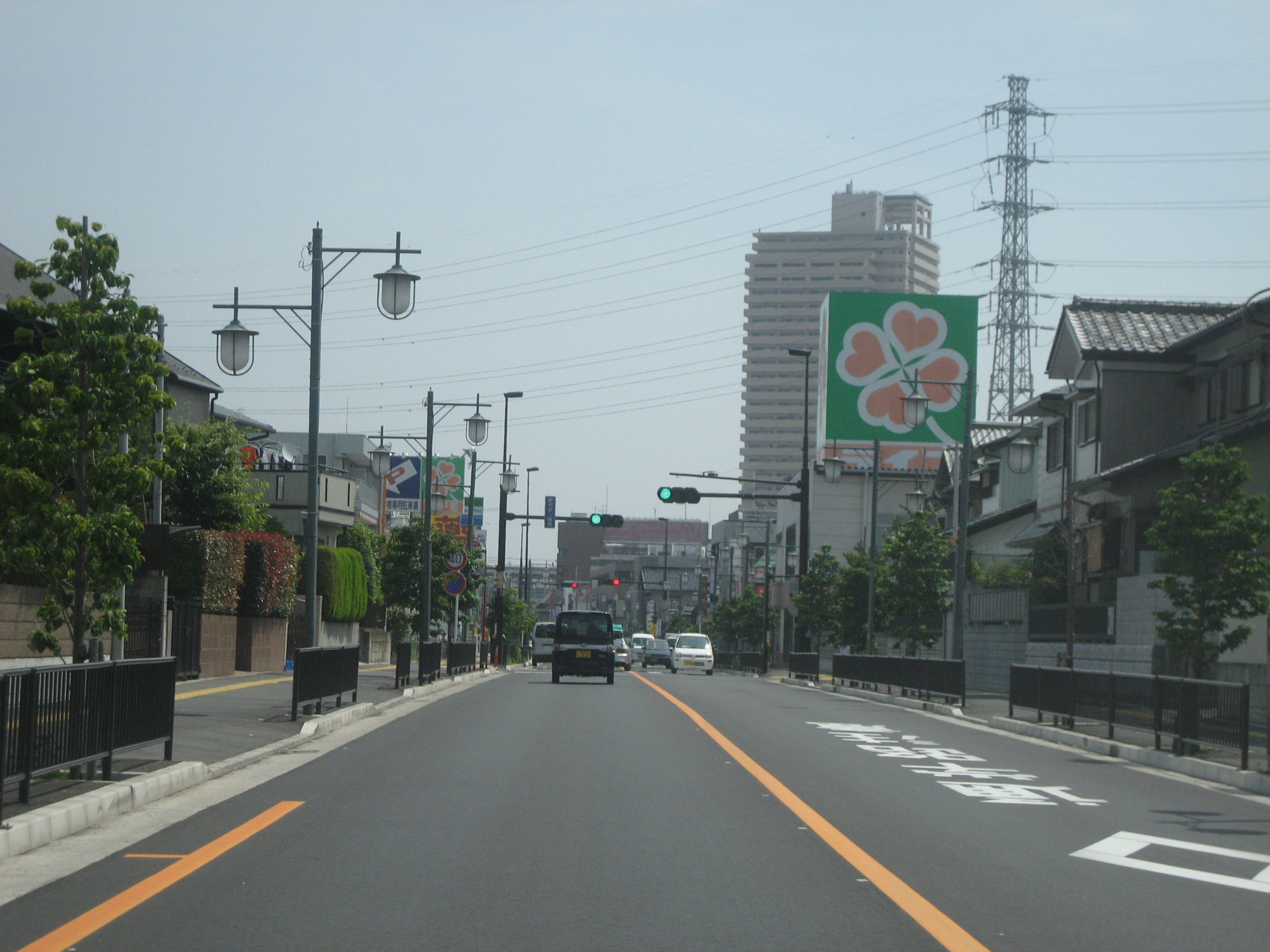 埼玉県道405号線